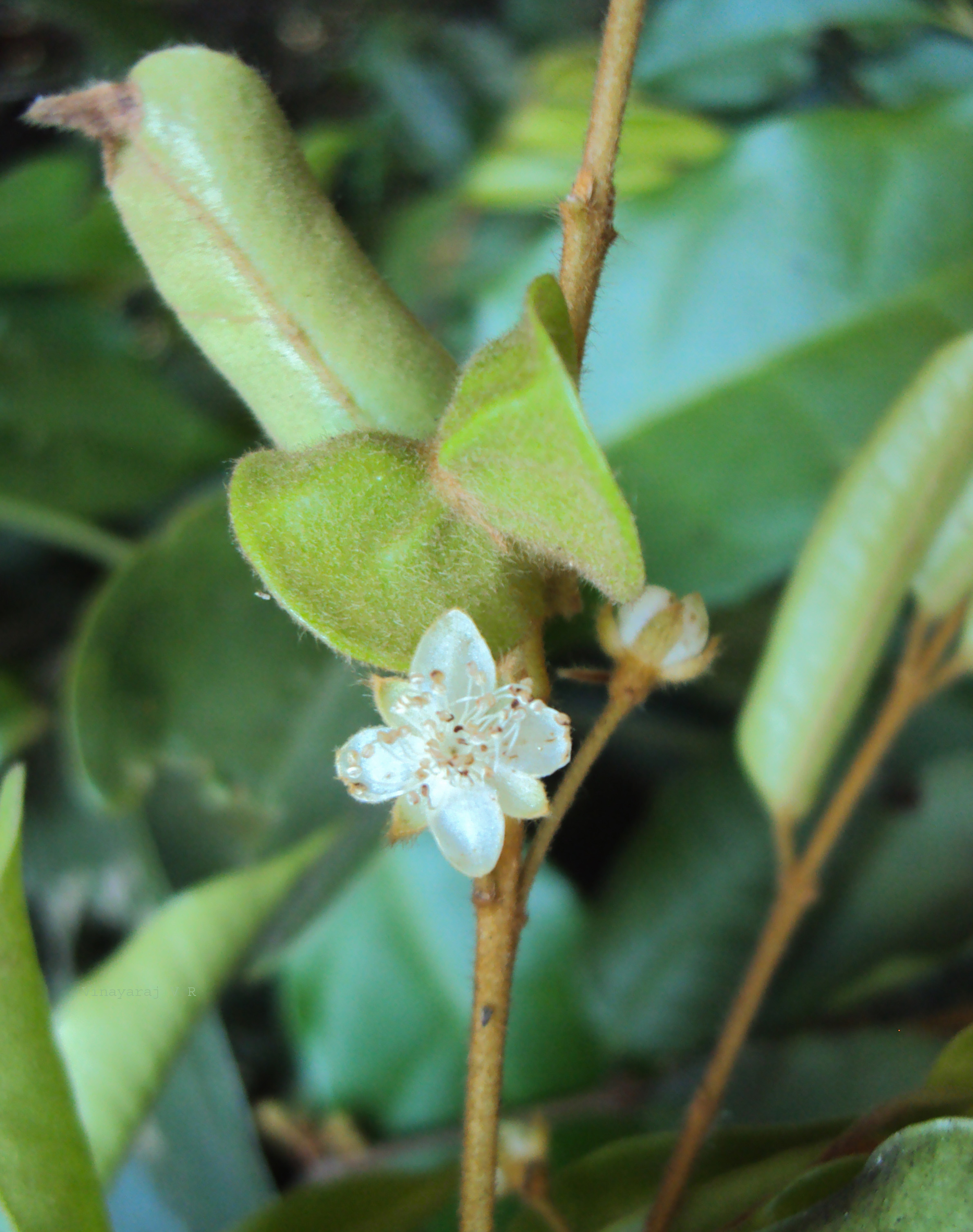 Meteoromyrtus wynaadensis